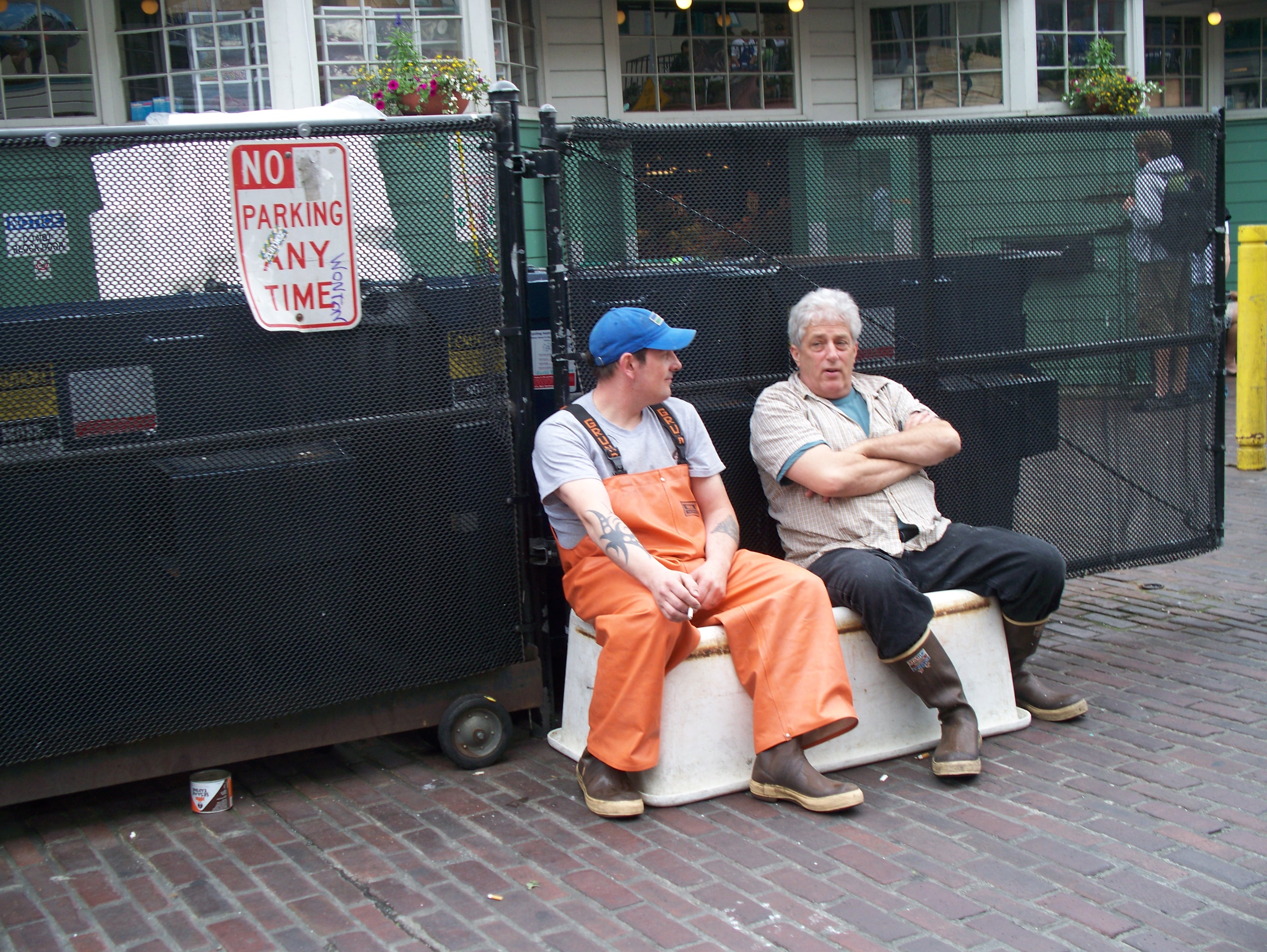 Two men taking a break during their workday.